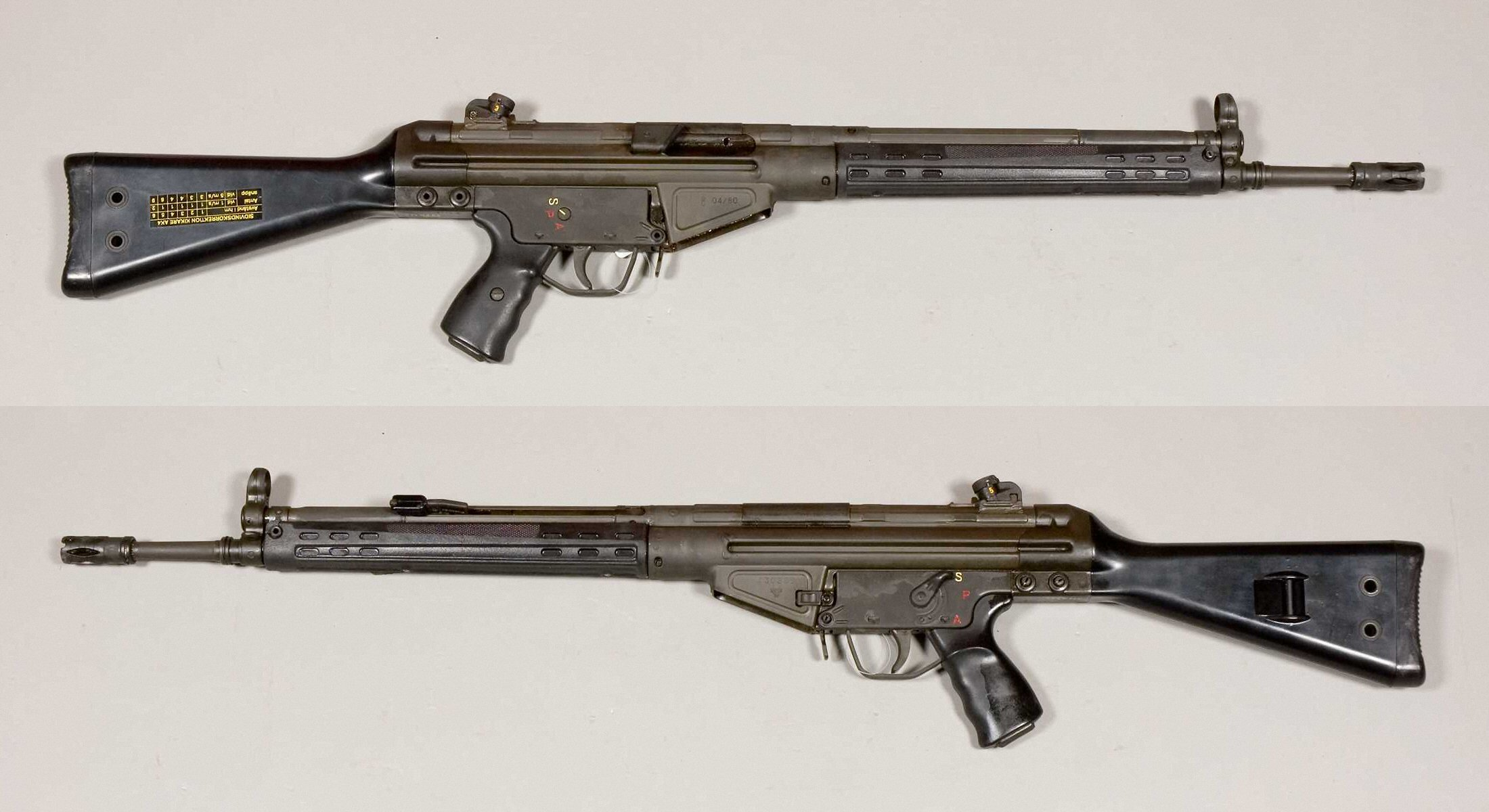 Automatkarbin 4 (Heckler & Koch G3 made under license in Sweden by Carl Gustafs). Caliber 7.62mm NATO. Notice the windage table on the butt stock for correctly adjusting a Hensoldt 4x24 telescopic sight for 100–600 metres (109–656 yd) in 100 metres (109 yd) increments. From the collections of Armémuseum (Swedish Army Museum), Stockholm.